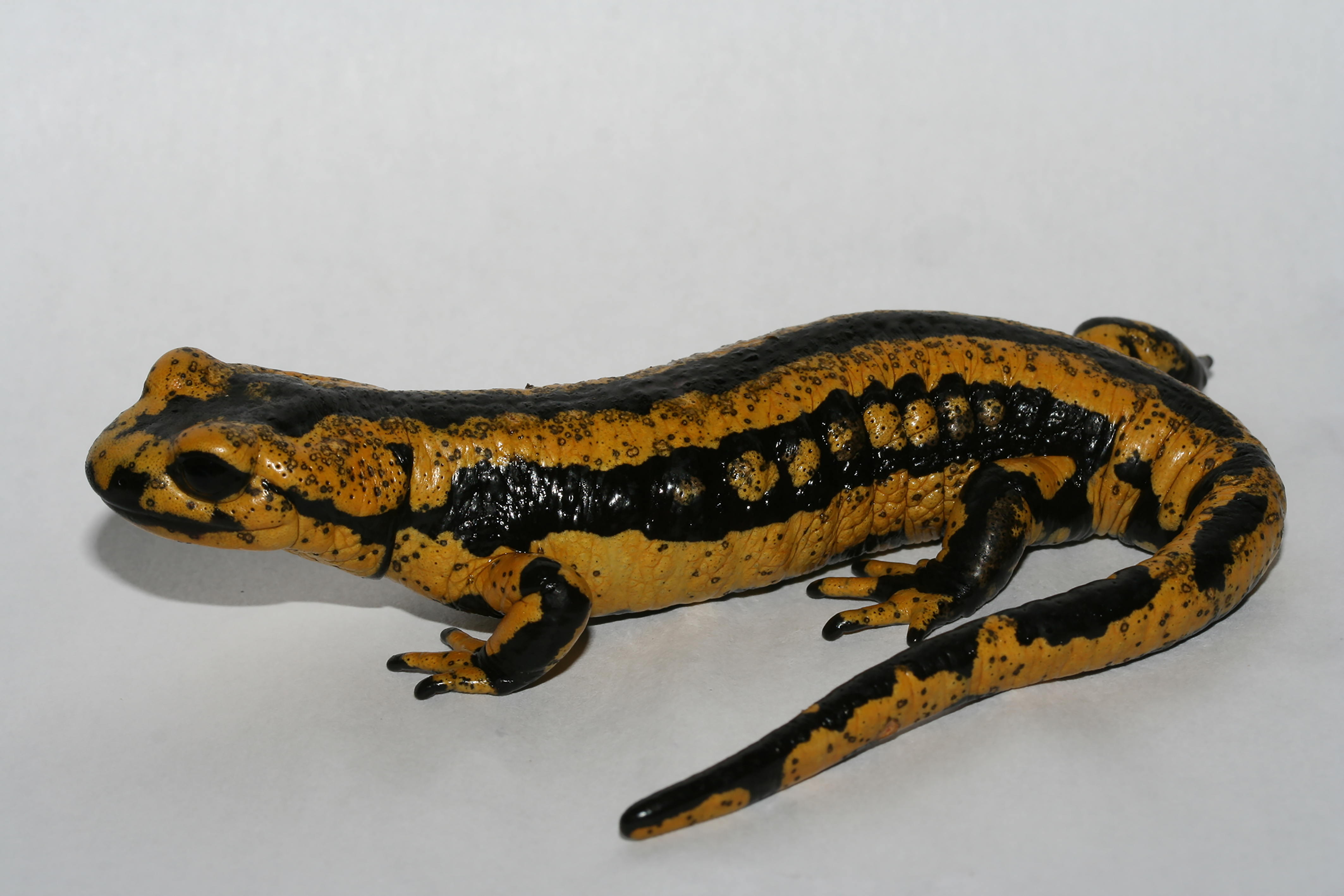 Fire salamander (Salamandra salamandra) covered with Batrachochytrium salamandrivorans ulcerations, which are visible as black spots (photo credit = F. Pasmans)